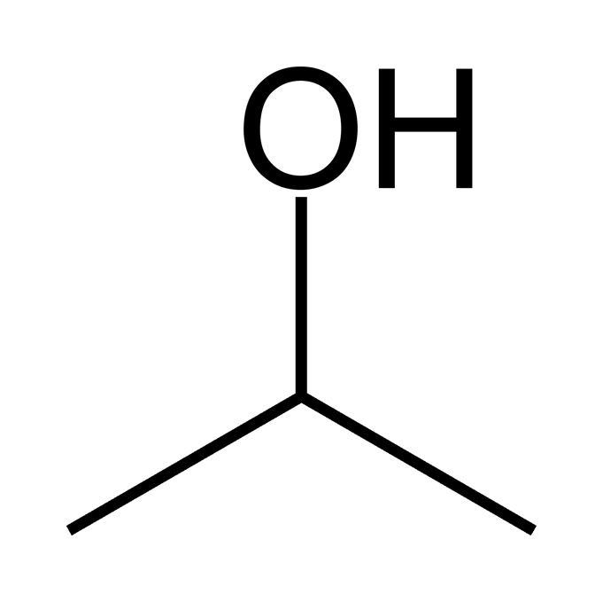 Skeletal formula of isopropanol (2-propanol, C3H8O)